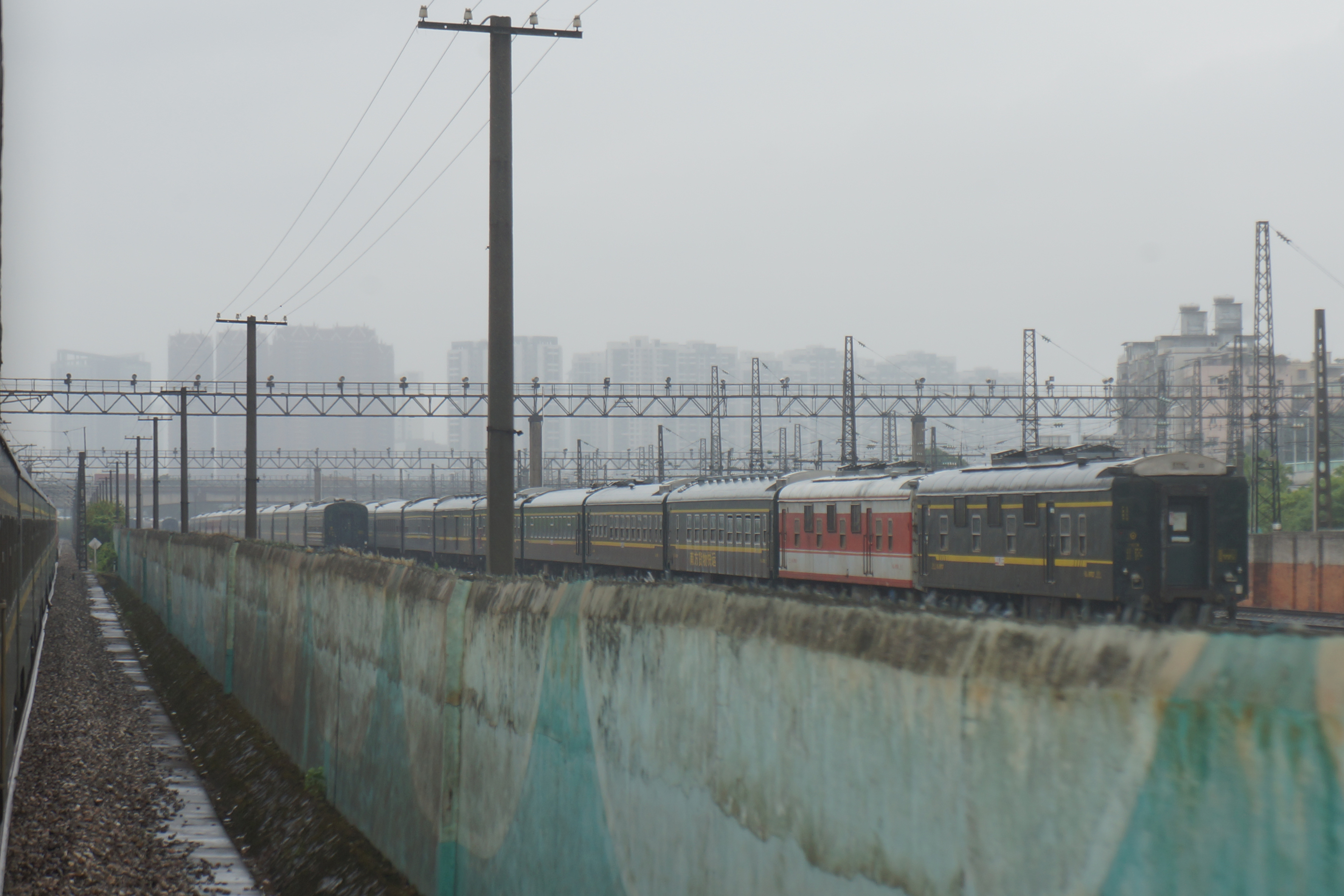 201609 Guangzhou Rolling Stock Depot